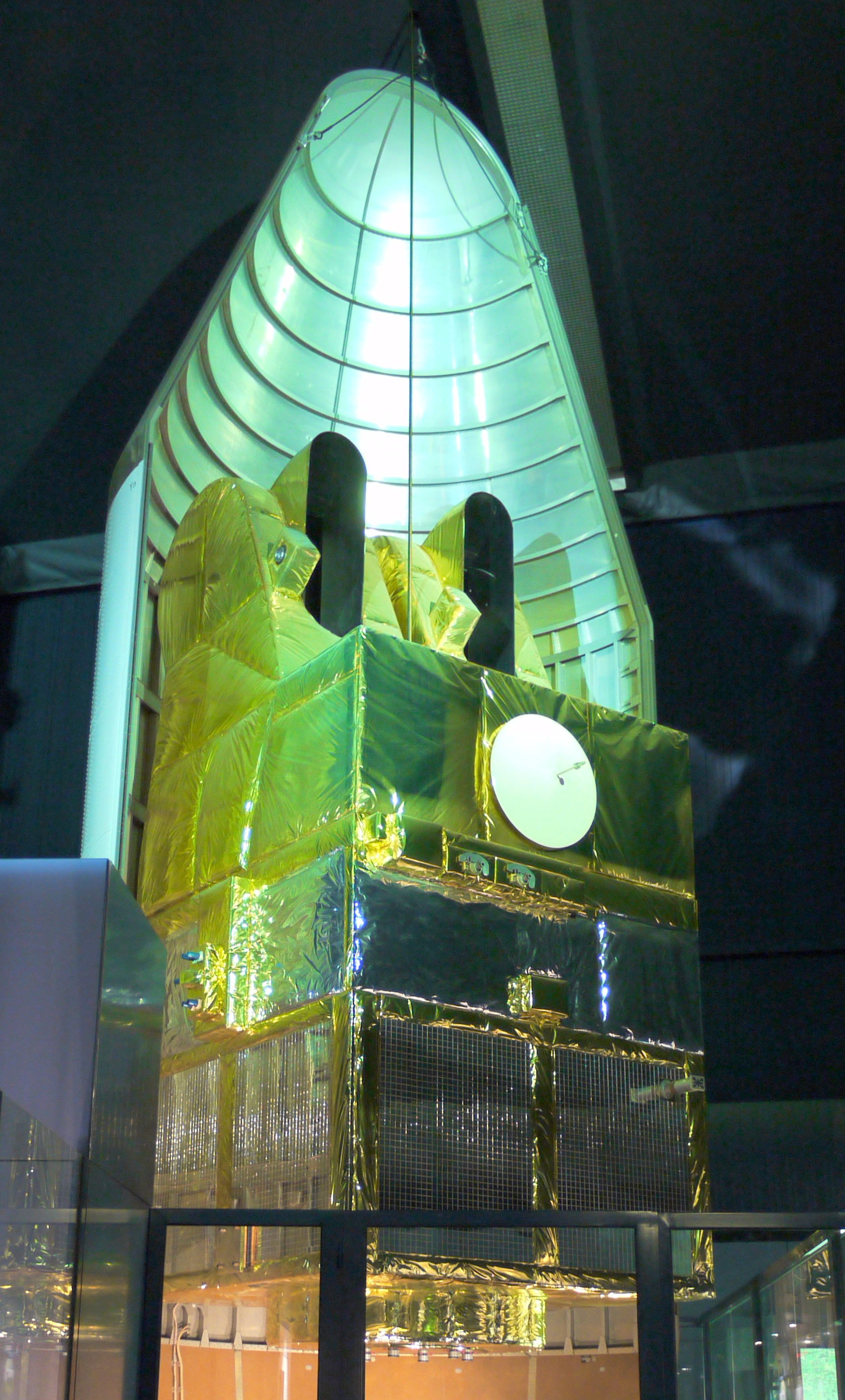 Mockup of the communication satellite SPOT 1 (1986), Museum of Air and Space Paris, Le Bourget (France)